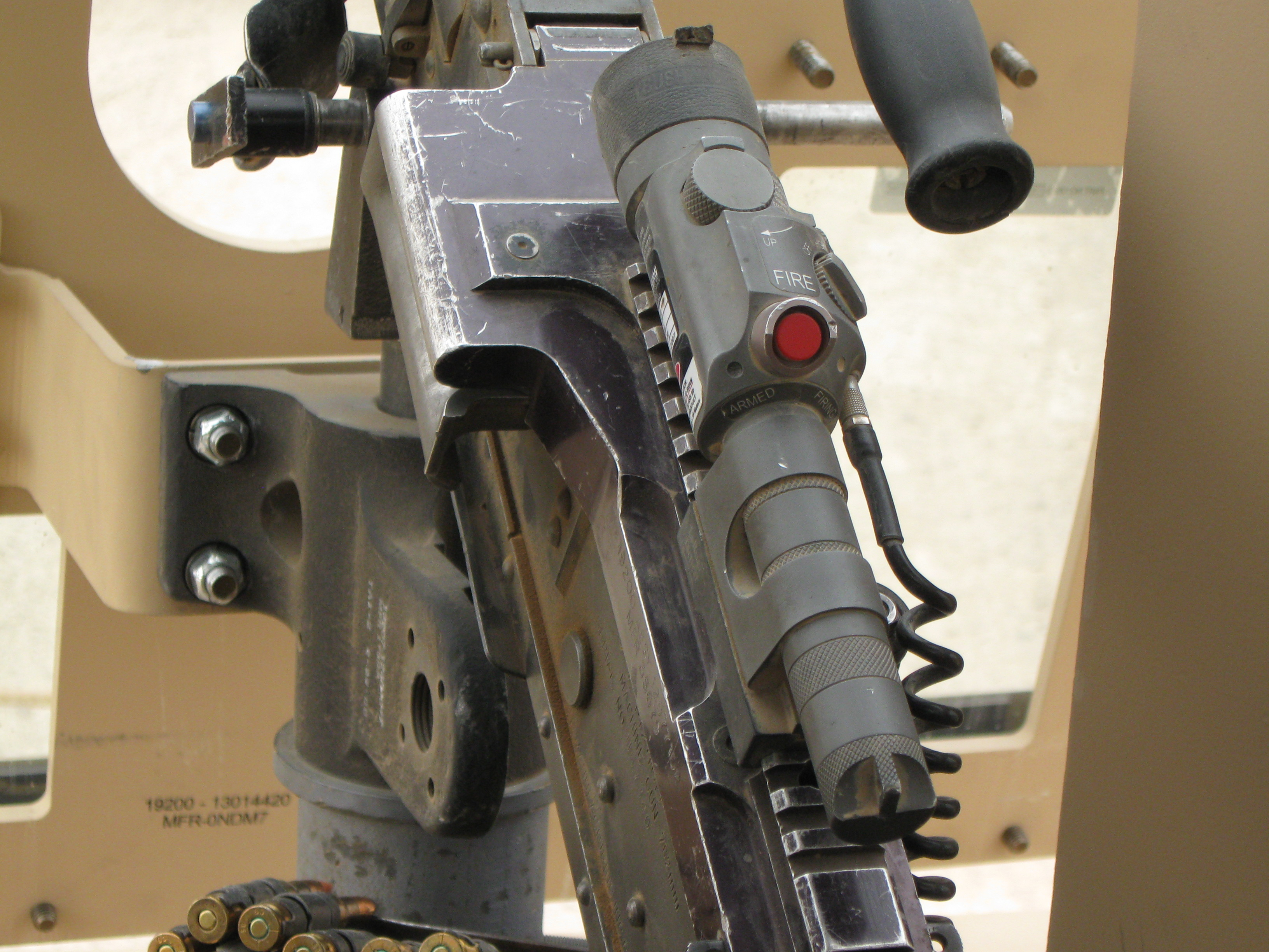 A Dazzler mounted on a M240B machine gun during the Iraq War